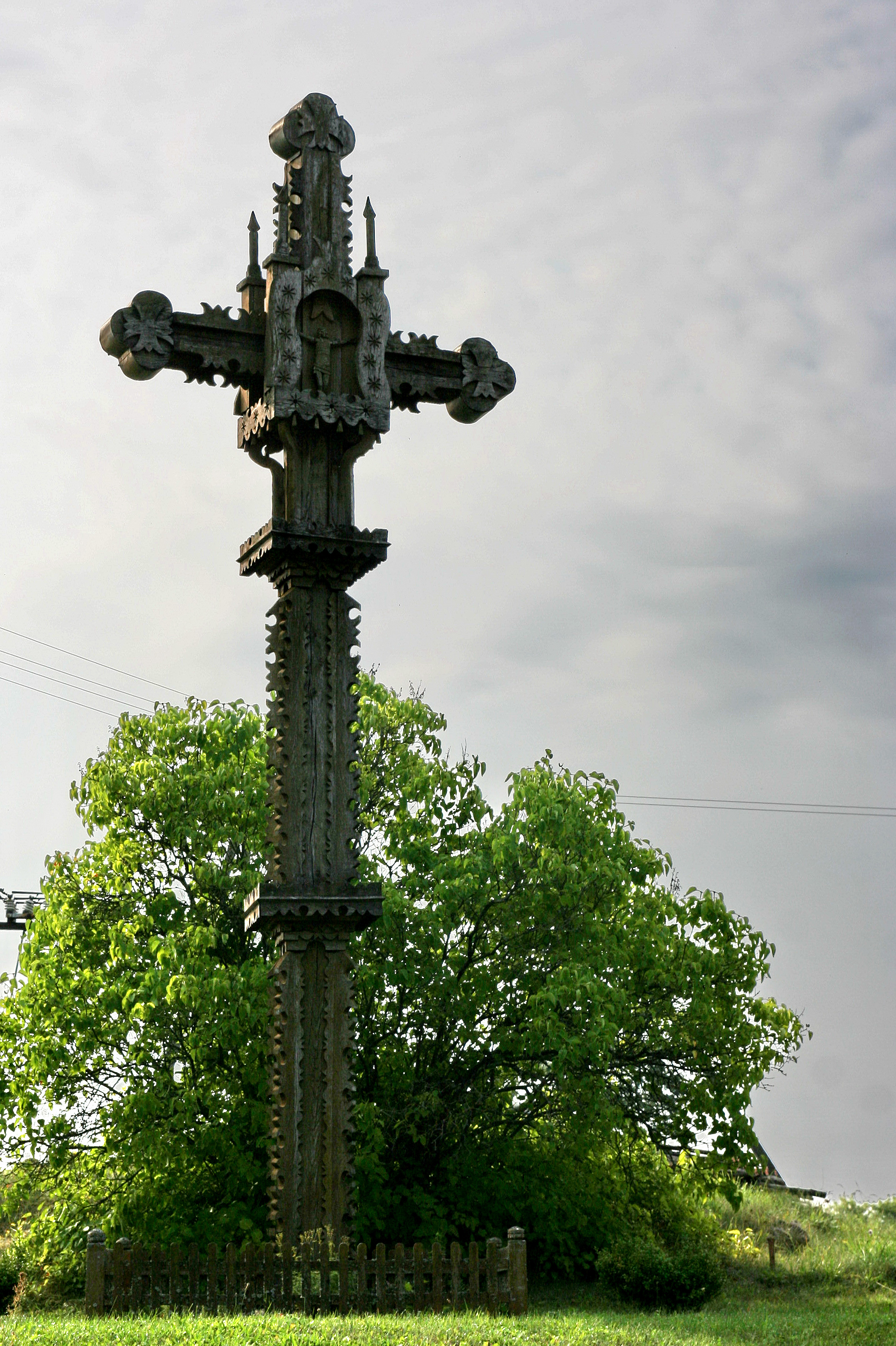 Gatakiemis cross